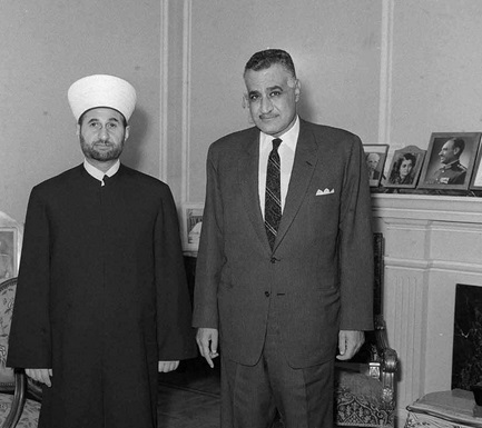 Egyptian President Gamal Abdel Nasser and Grand Mufti of Lebanon Hassan Khaled in Cairo during the Muslim Scholars Conference